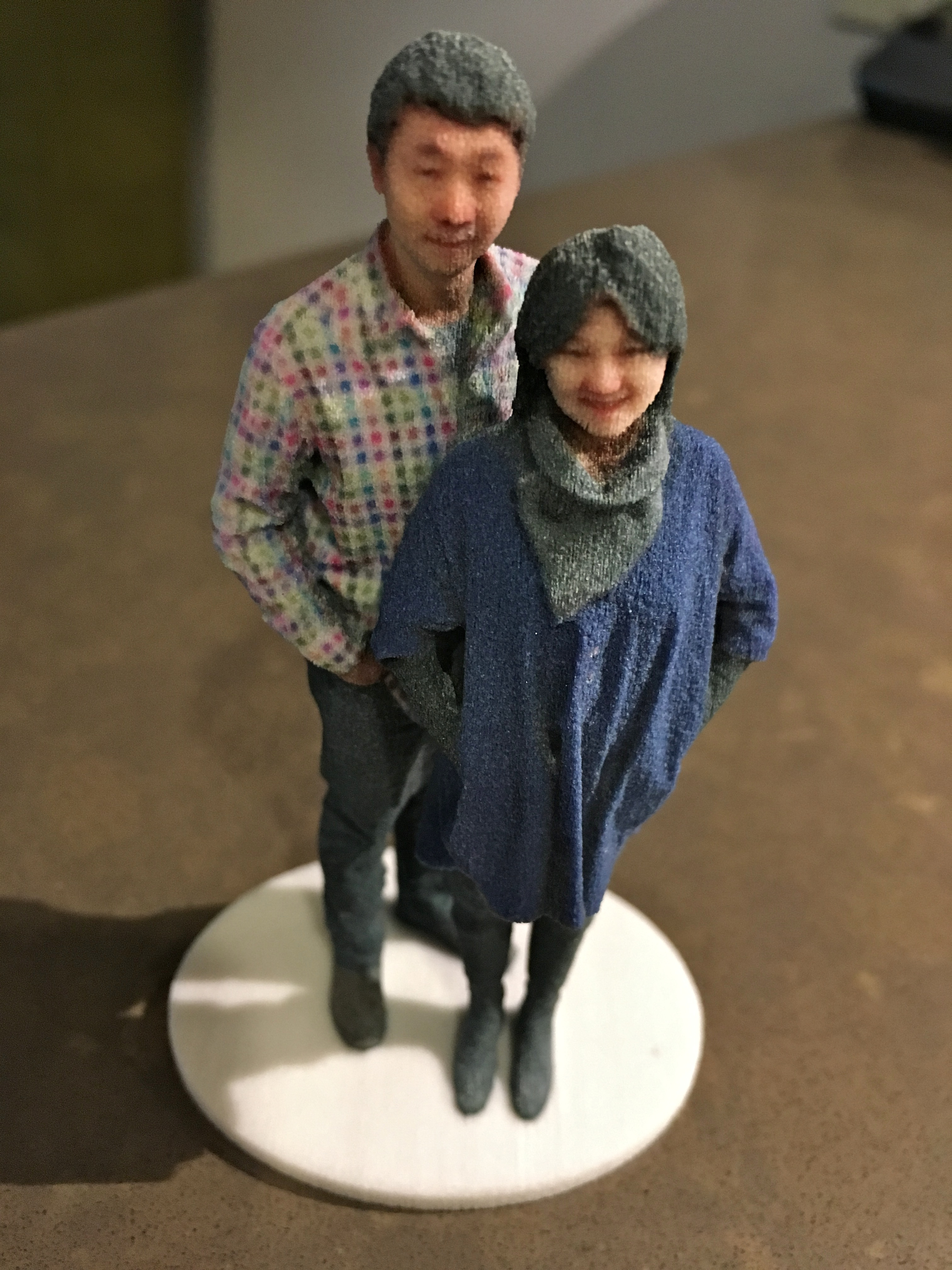 3D selfie in 1:20 scale as received from Shapeways, the printer company used by Madurodam miniature park to fabricate 3D models generated from 2D pictures taken at its Fantasitron photo booth. The Full Color Sandstone printing technique is a form of Powder bed and inkjet head 3D printing.